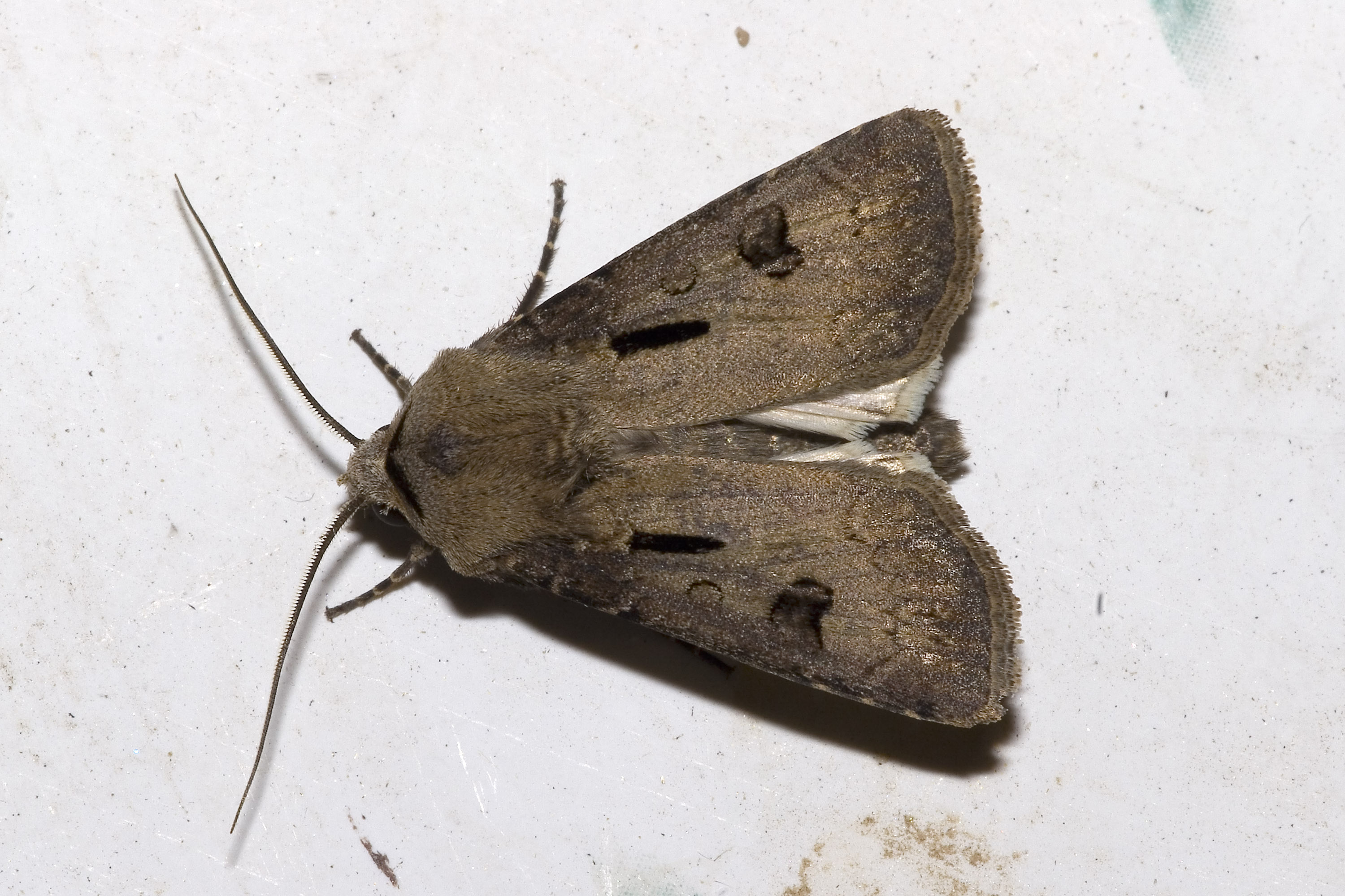 Heart and Dart, Agrotis exclamationis